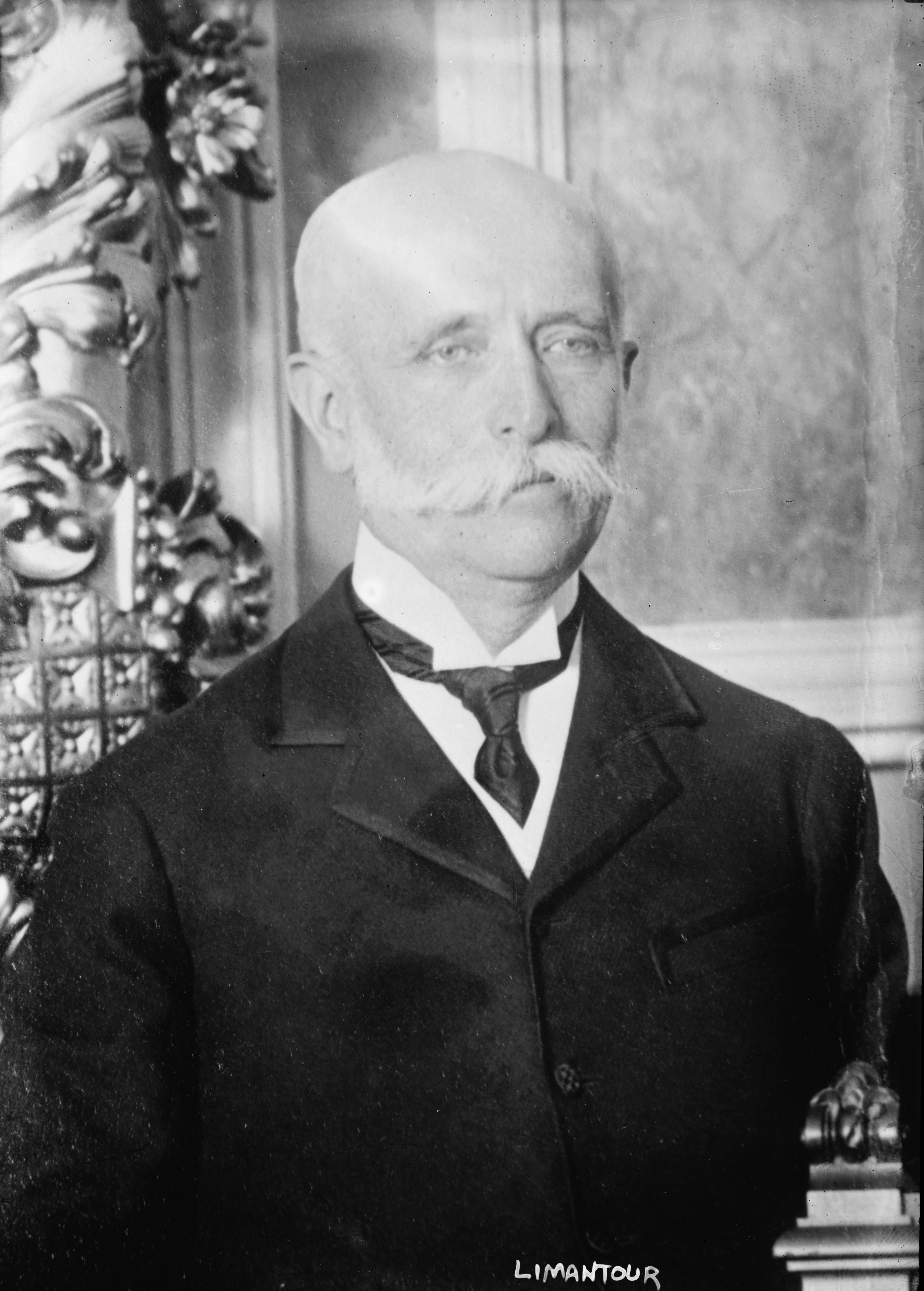 José Yves Limantour, Minister of Finance of Mexico (1893 - 1911).